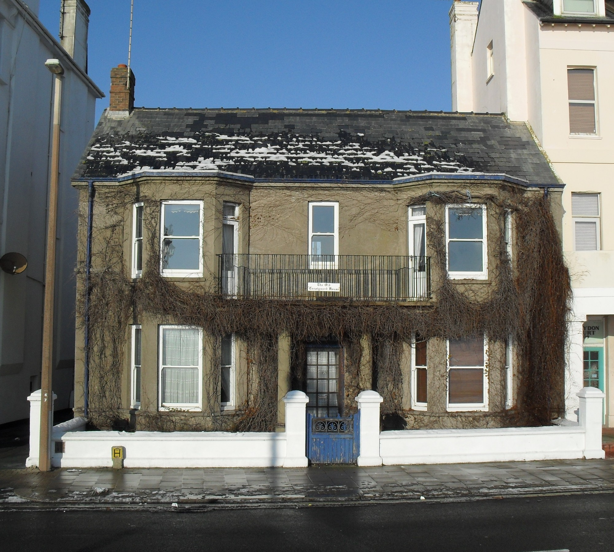 The Old Coastguard House, 110 Marine Parade, Worthing, West Sussex, England. Built about 1820 as a coastguard station; now a private house. The boundary between Worthing and Heene runs along the passageway to the left; the cottage is on the Worthing side.